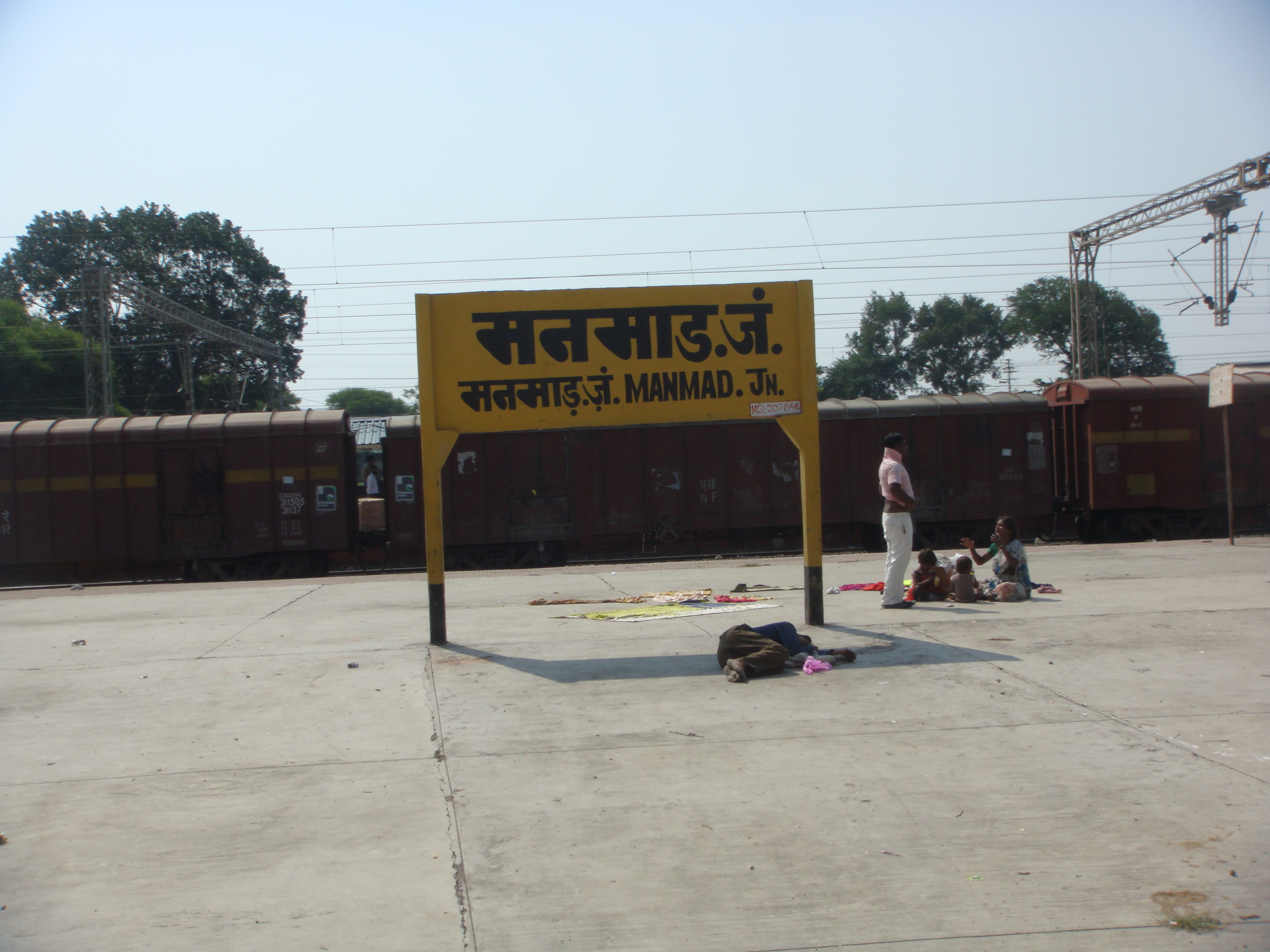 Manmad Junction